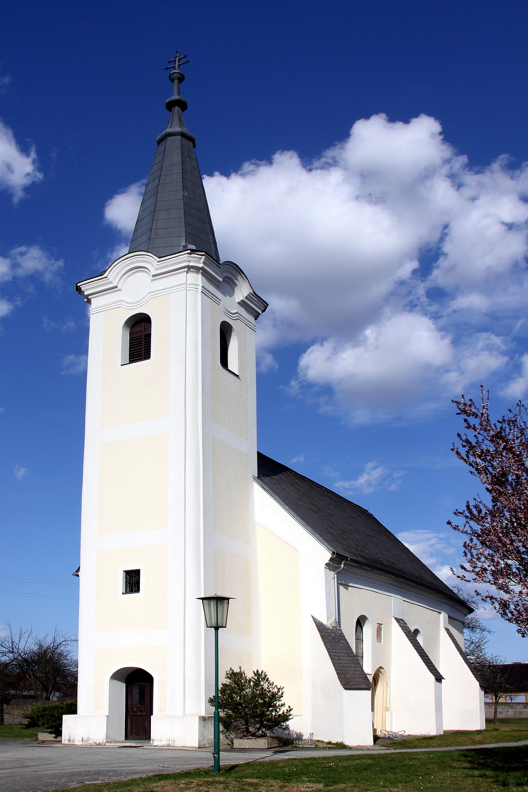 Schandorf - Catholic parish church holy Ann